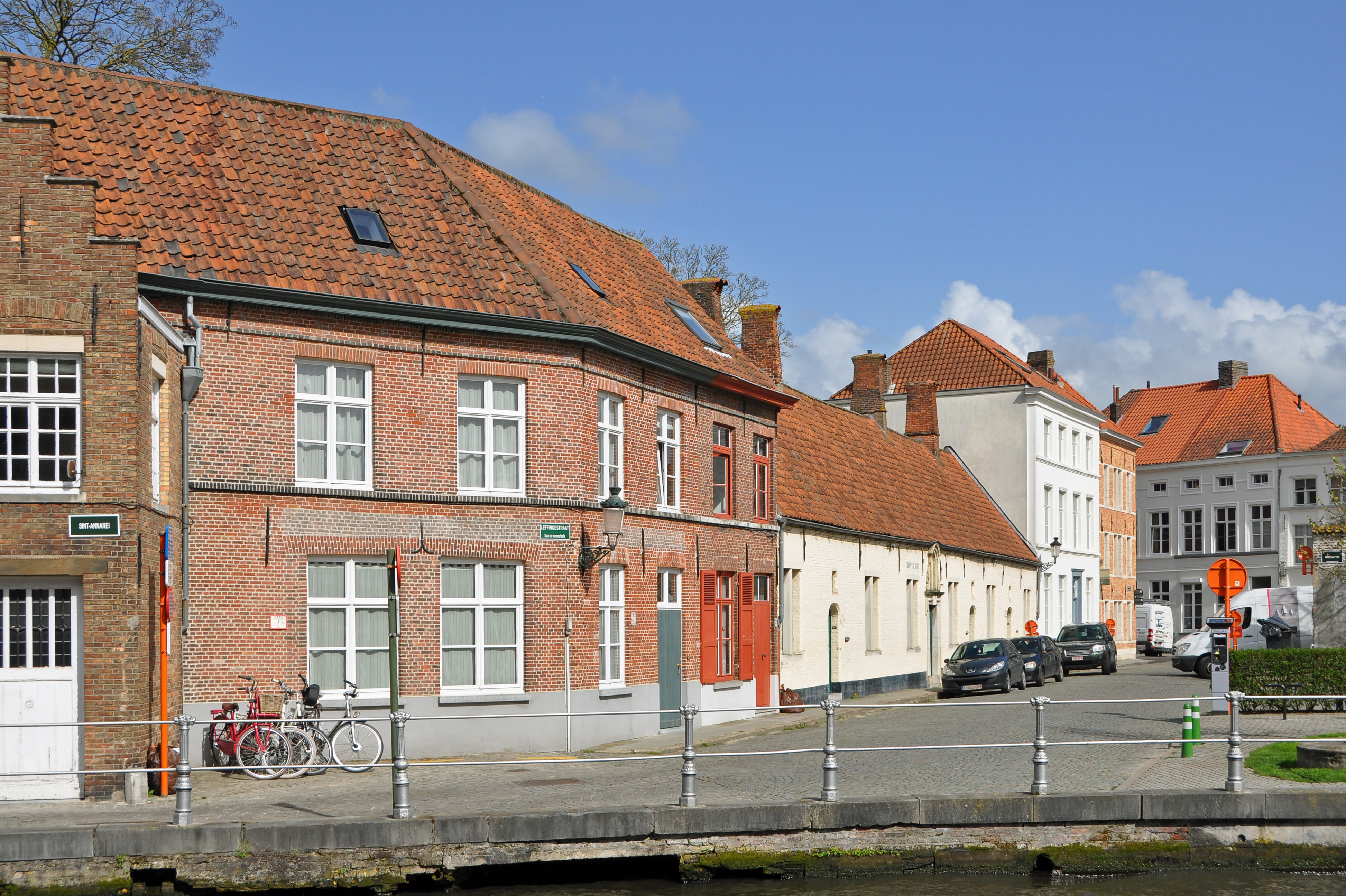 Bruges (Belgium): Leffingestraat